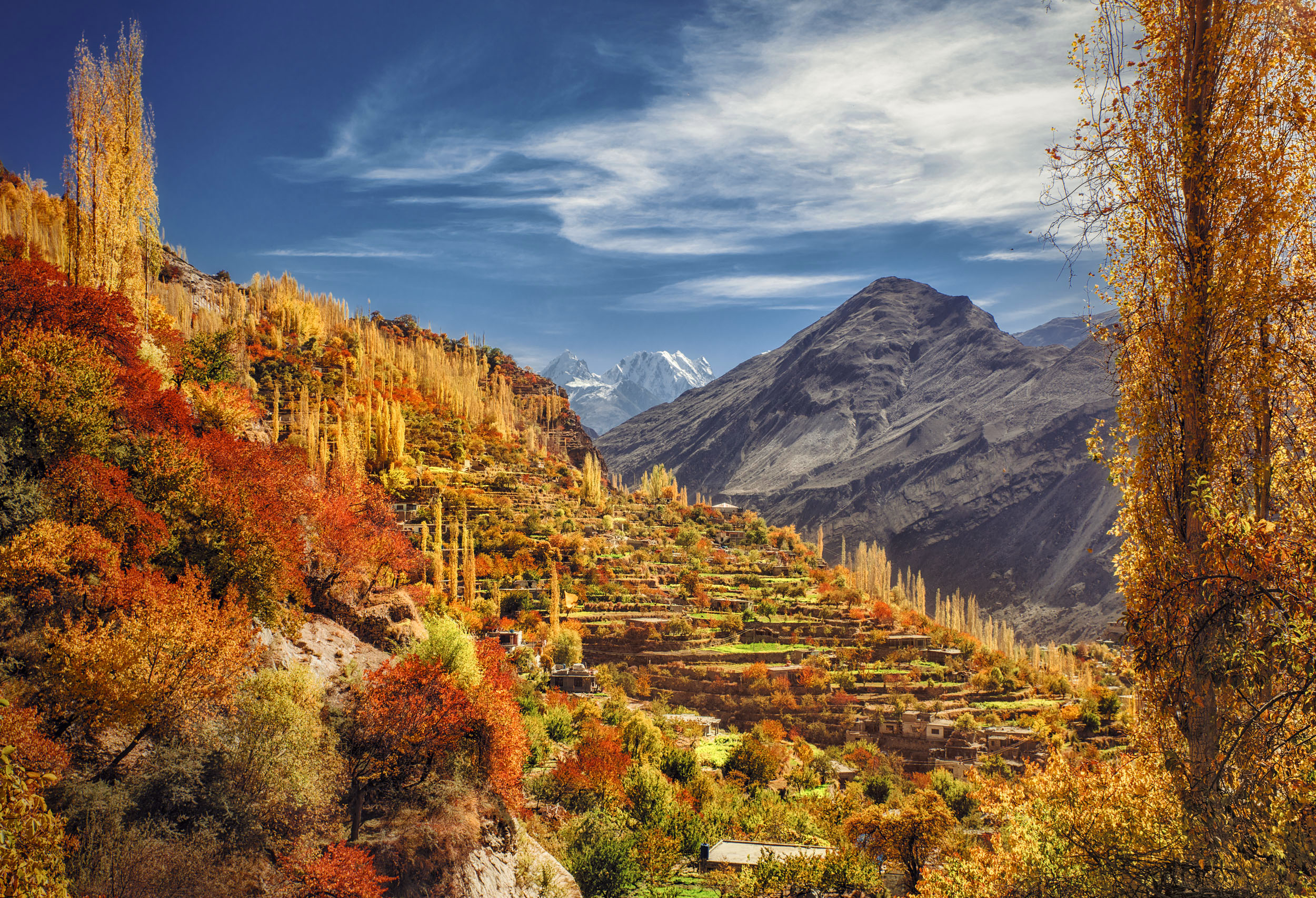 Autumn at its boom in the valley of Hunza Altit Valley, Gilgit Baltistan, Pakistan